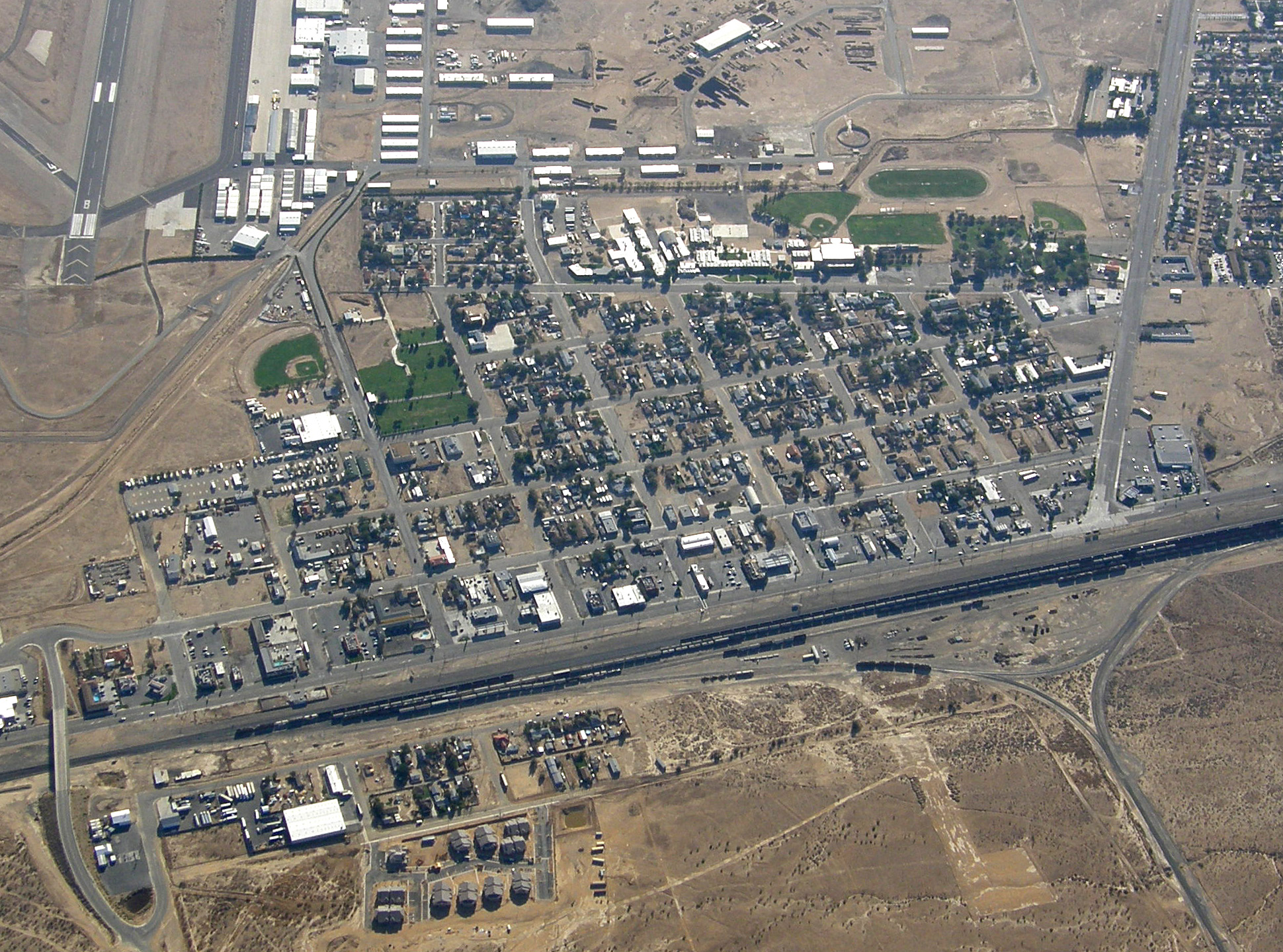 Mojave, California, looking east, from 10,000 feet